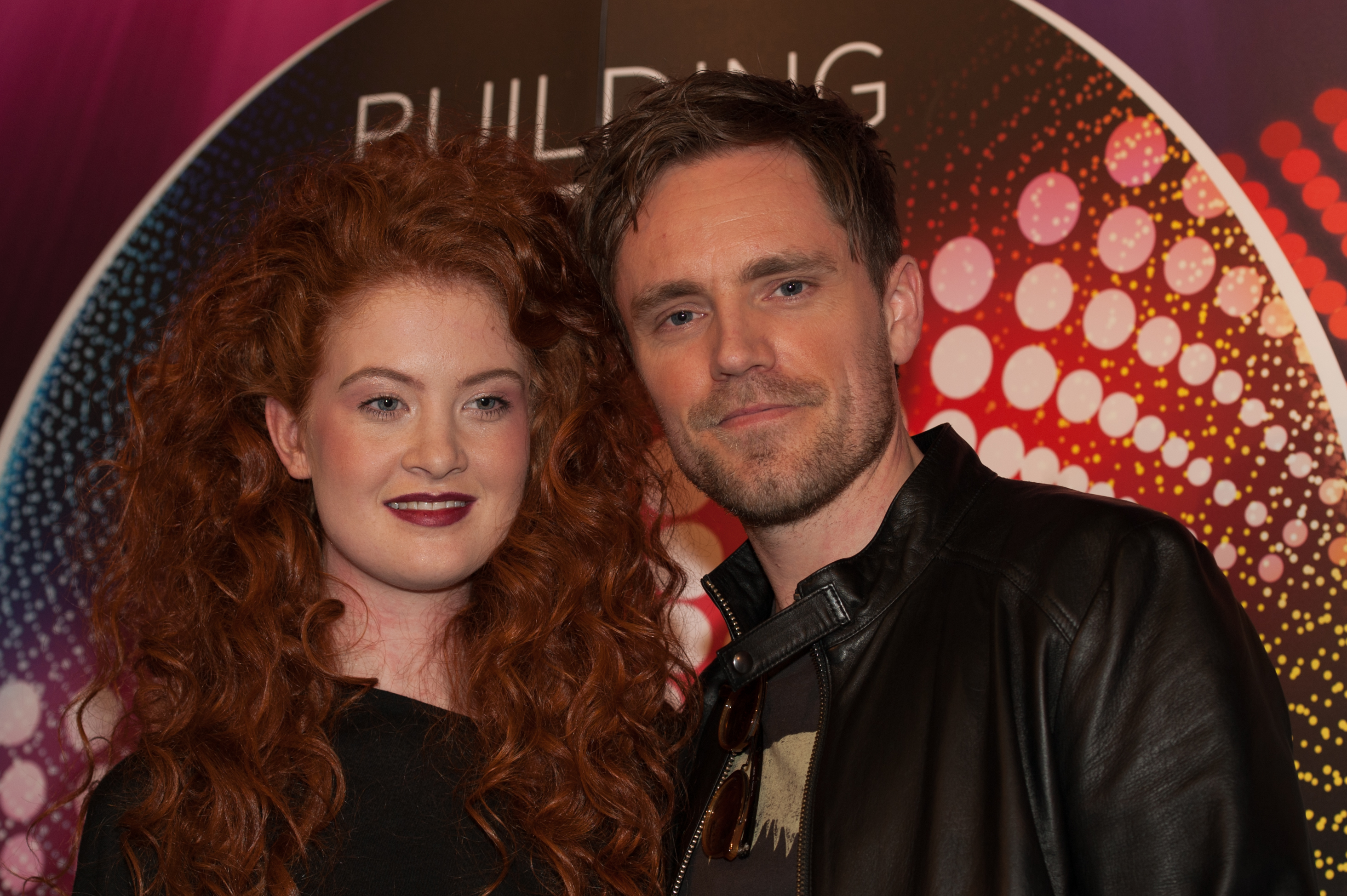 Eurovision Song Contest Vienna 2015: Mørland & Debrah Scarlett